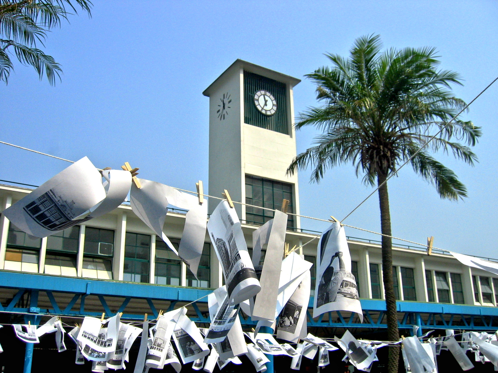 Edinburgh Place Ferry Pier Clock Tower 200611